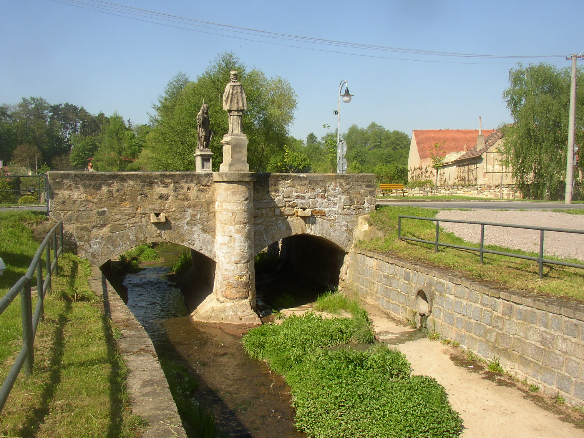 Stone arch bridge over the Bakovský potok stream in Královice village, Kladno District, Czech Republic. The bridge is decorated with pair of statues depicting St Wenceslas and St John Nepomucene.